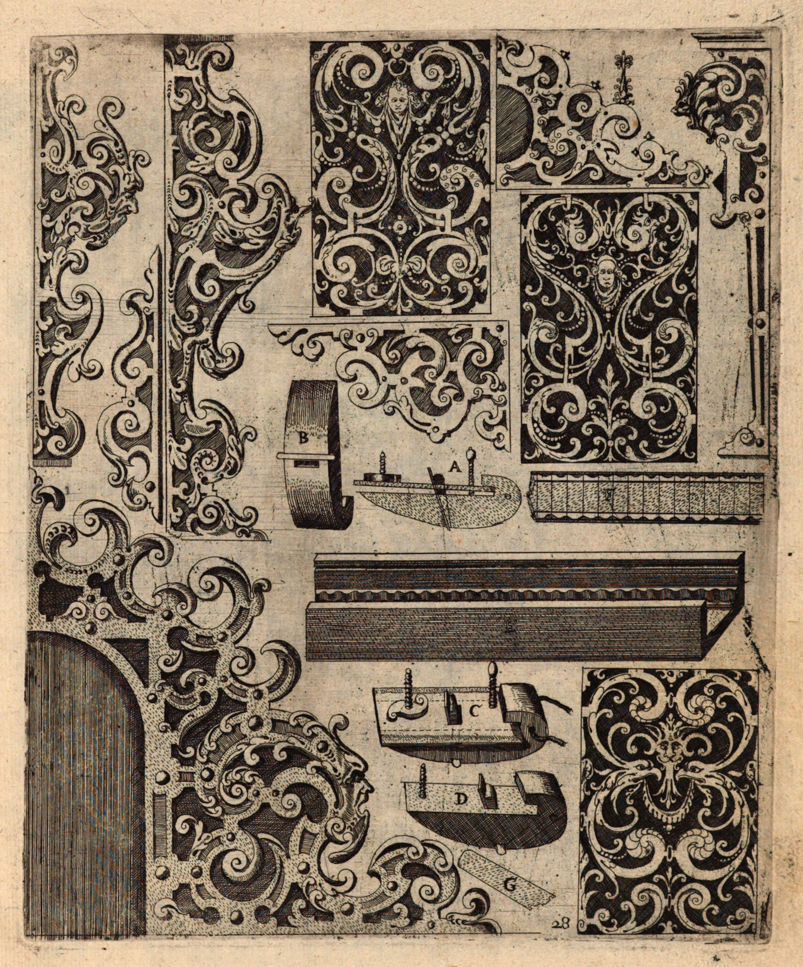 Engraving of special plane for making rippled moulding from book Architectur (1630) by Rutger Kasemann